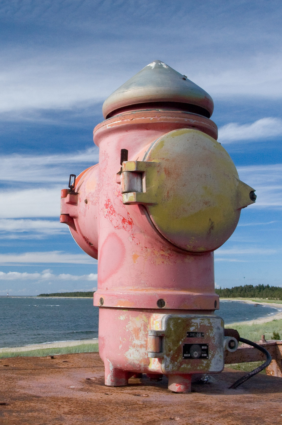 Dirhami front light beacon